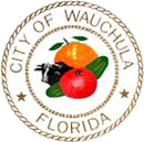 This is the seal of Wauchula, Florida.